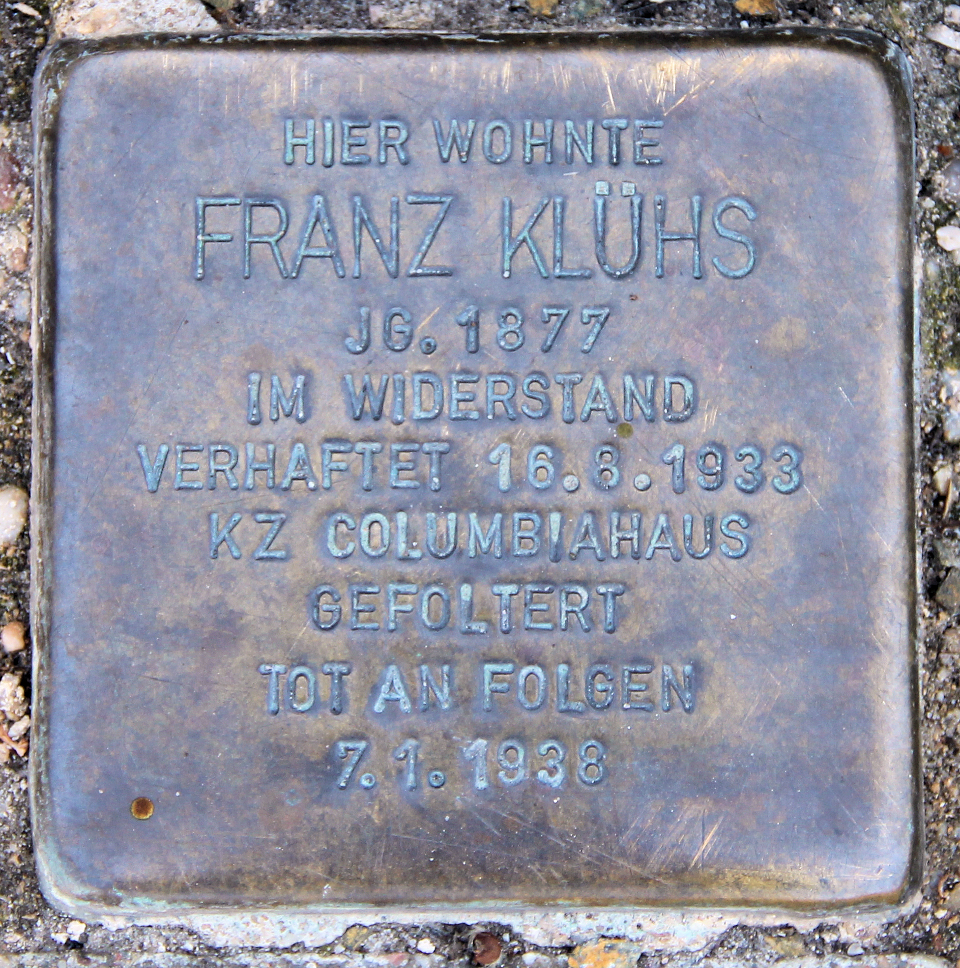 "stumbling block", Franz Klühs, Kleineweg 77, Berlin-Tempelhof, Germany Koordinate:52°28′36″N 13°23′4″E / 52.47667°N 13.38444°E